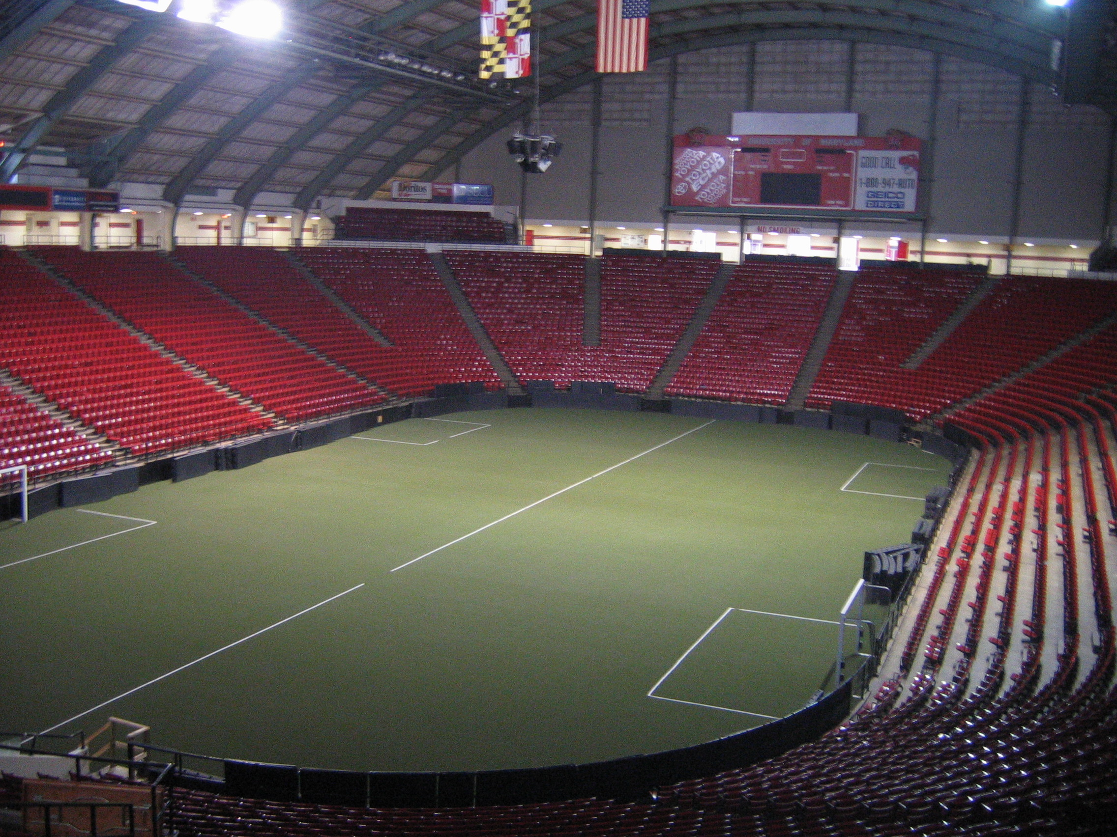 Cole Field House at the University of Maryland, College Park.